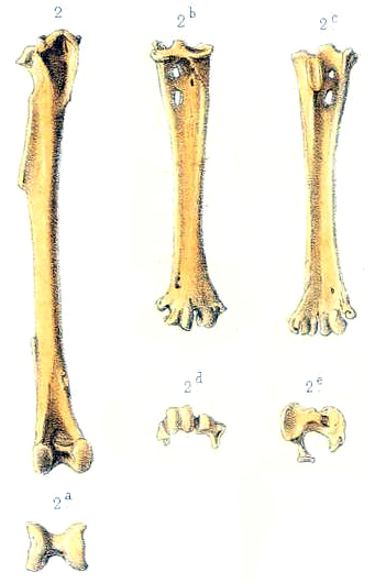 Tibia and Tarsometatarsus of the Rodrigues owl.[1] From Recherches sur la faune ornithologique éteinte des iles Mascareignes et de Madagascar By Alphonse Milne-Edwards. Published by G. Masson in Paris, France, 1866-1875.